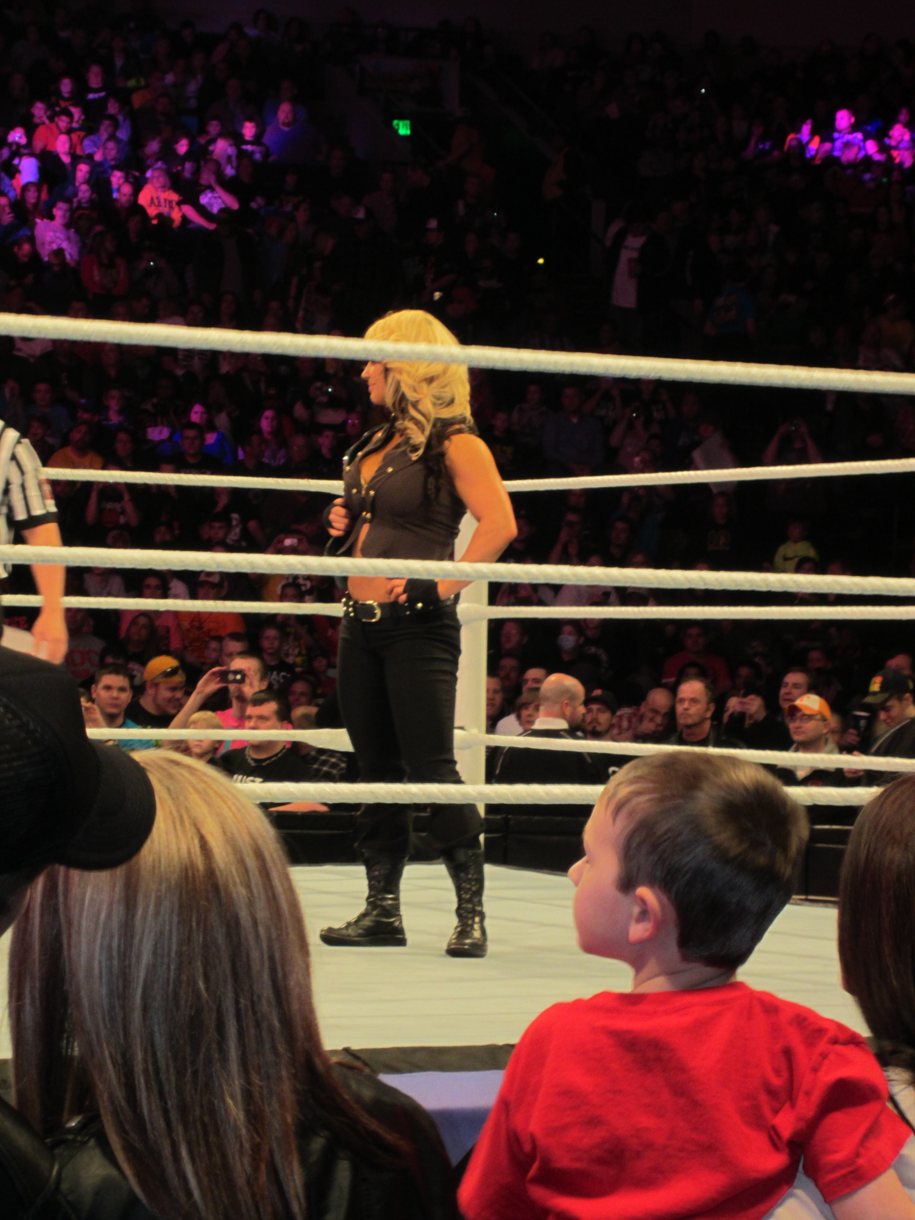 Kaitlyn with the Divas Championship during the WWE Superstars taping on 11th February 2013.